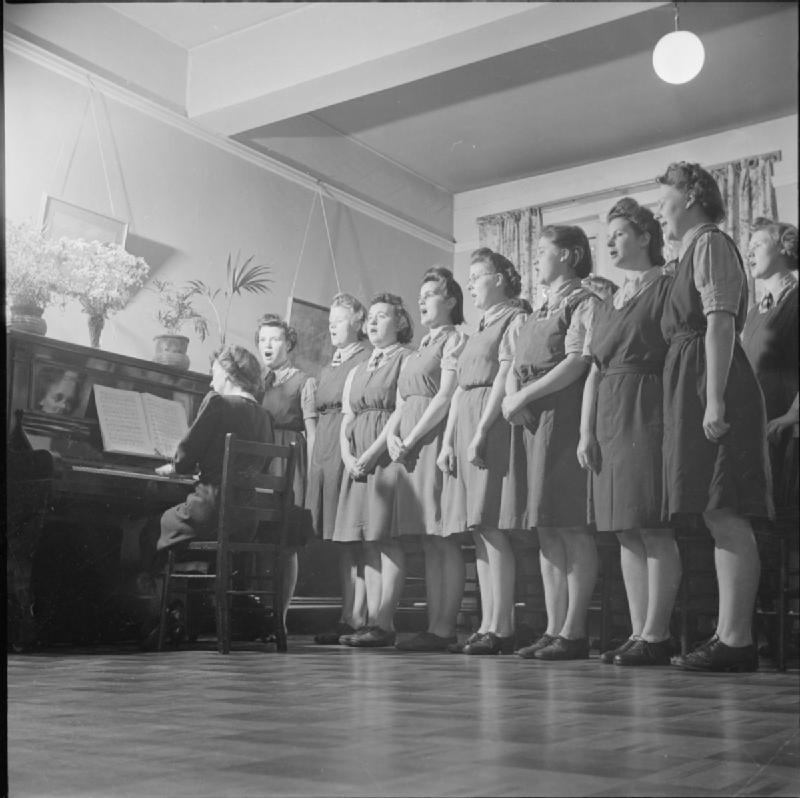 Making Citizens- Everyday Life at An Approved School in Leicester, Leicestershire, England, UK, 1945 Girls at an Approved School in Leicester stand beside the piano during a singing lesson.